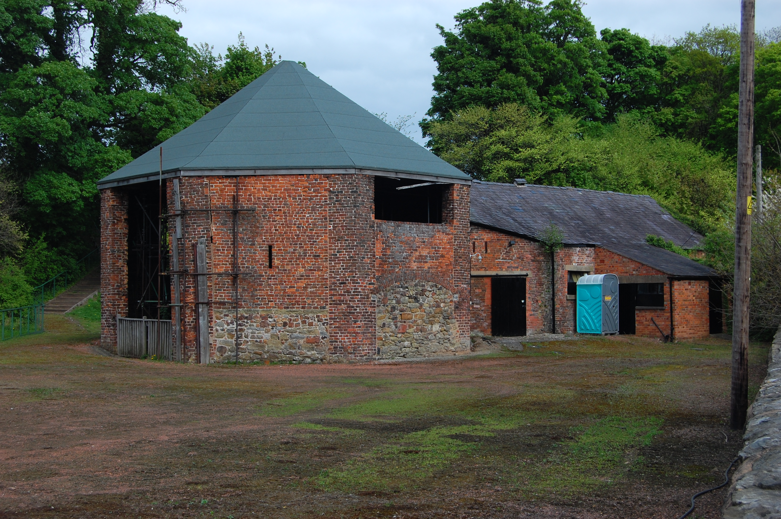 The Octagonal Building at Bersham Ironworks are where iron for cannons was produced, as well as the Casting pit and fettling shop.